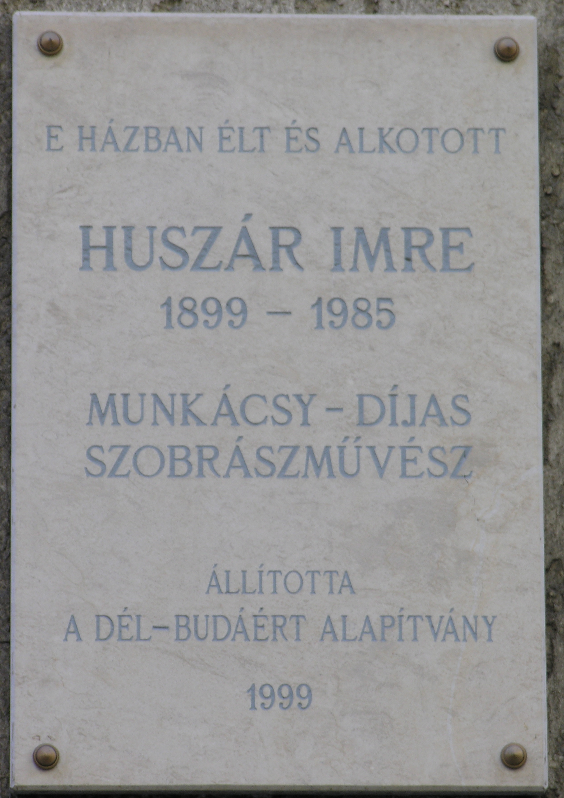 Commemorative plaque of Imre Huszár in Budapest District XI, Lágymányosi Street No 17/b